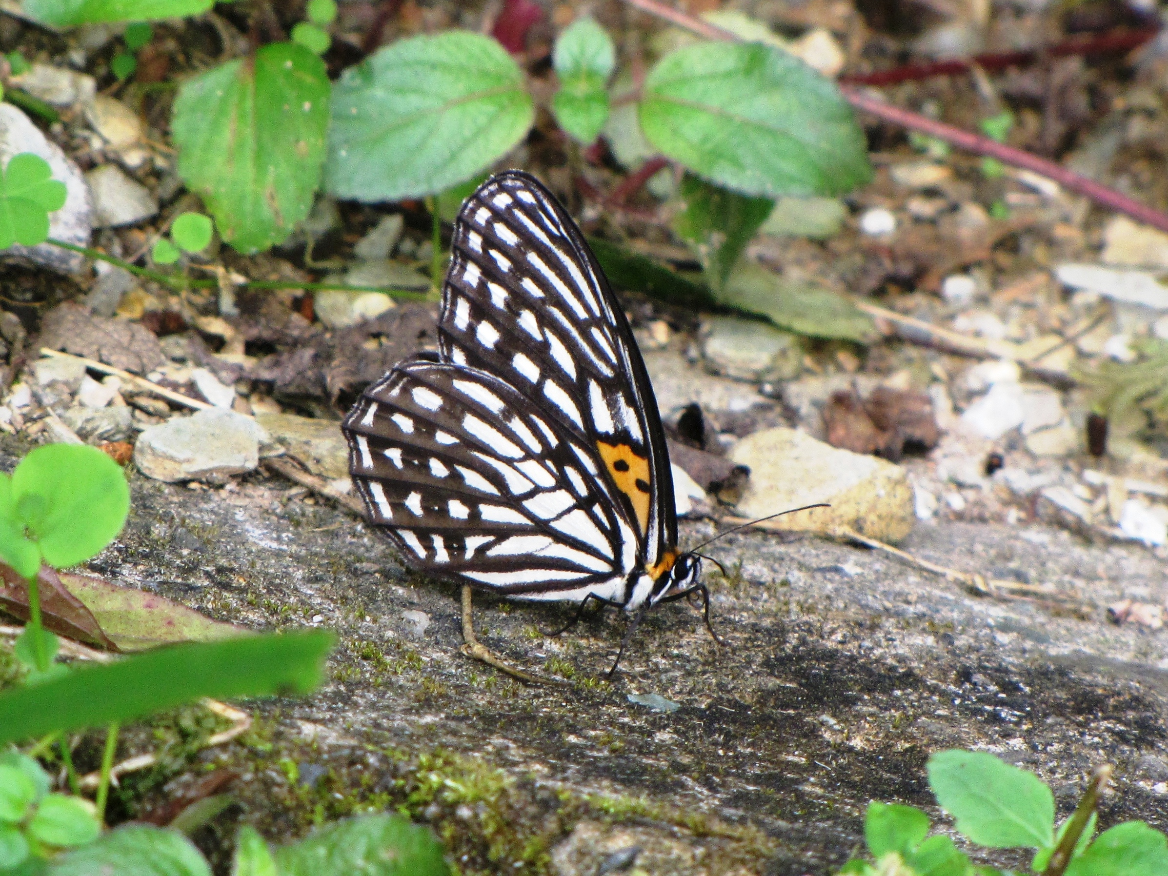 Tiger Brown (Orinoma damaris), a satyrid butterfly from the Himalayas. Recorded at Latpanchor, Darjeeling district, West Bengal.